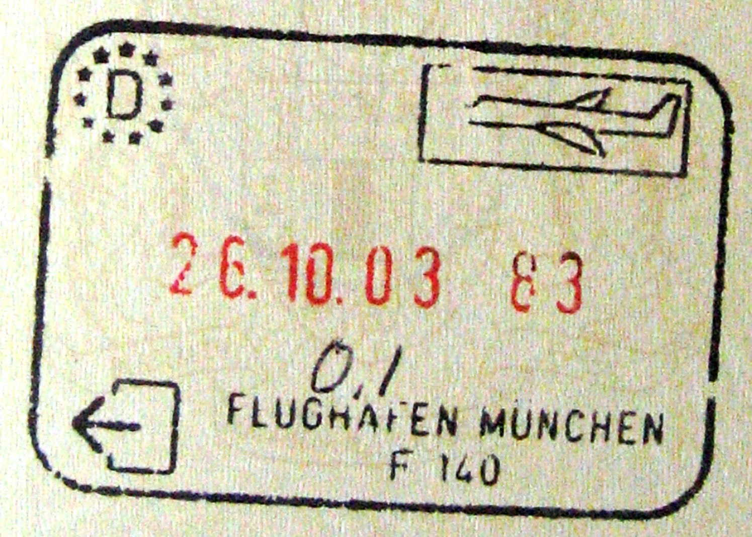 Schengen exit stamp from Munich Airport.